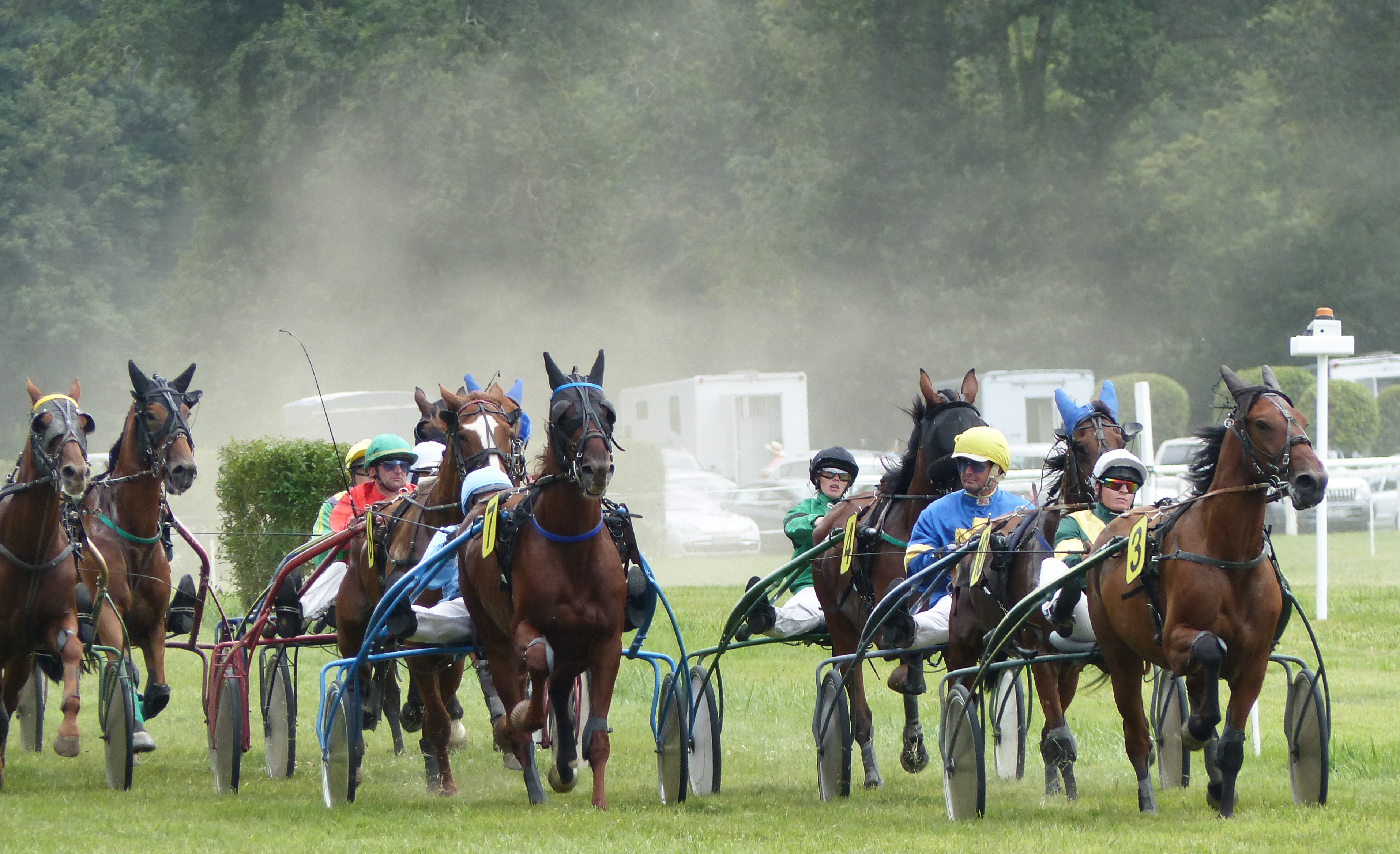 Harness racing heat (french trotters) at Saint-Jean-des-Prés racecourse, Morbihan, Brittany, France.